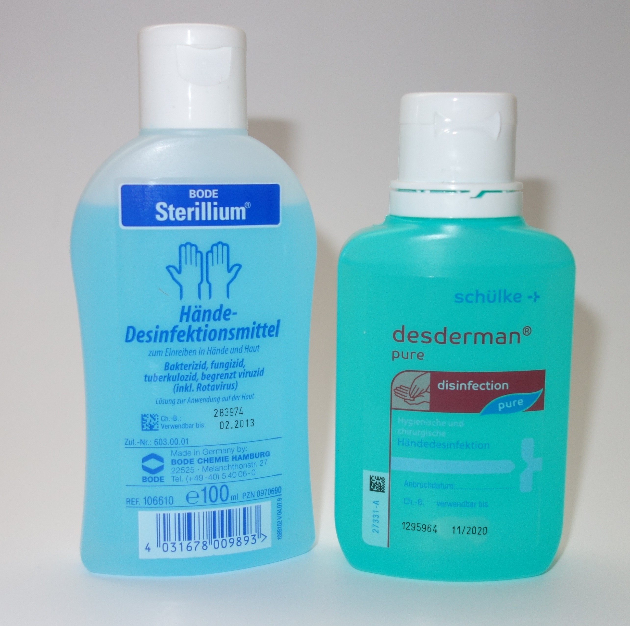 Fluids for desinfektion of hands.